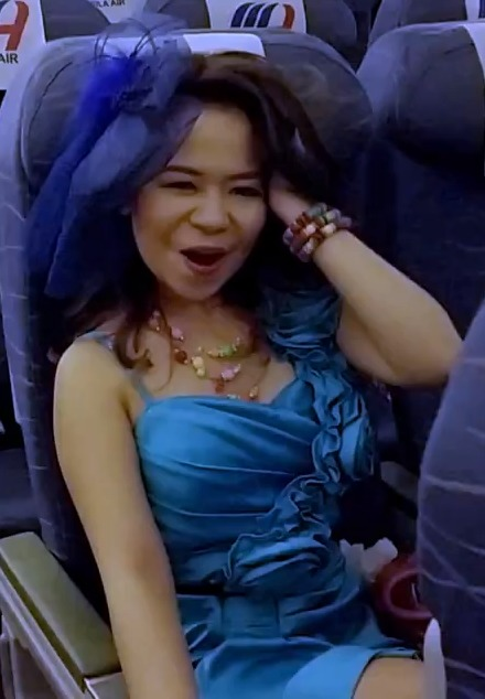 Shake, Rattle and Roll XV Official Trailer - Kiray Celis